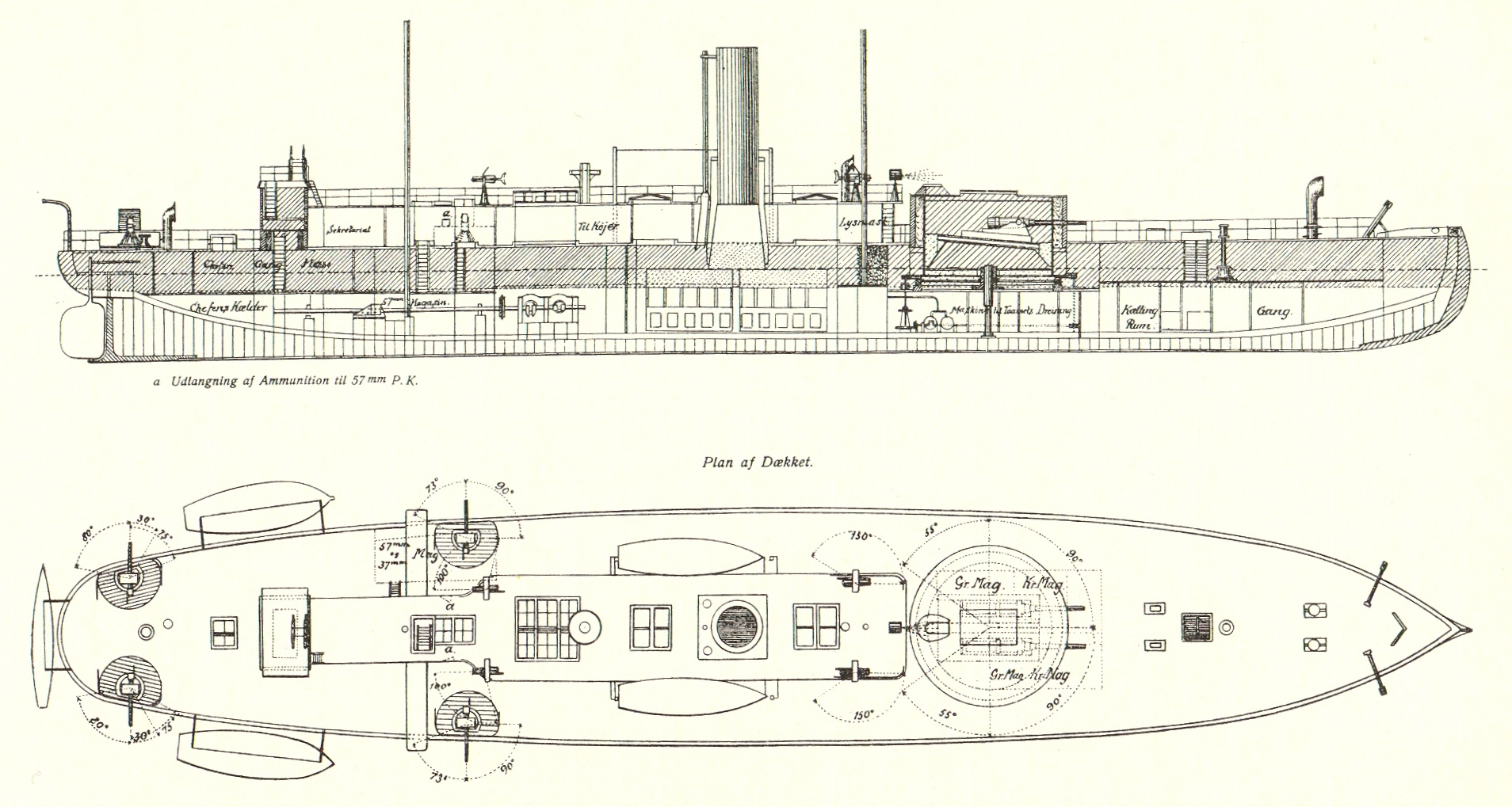 Plan of the Danish Ironclad Gorm in 1903, with new guns in the turret.